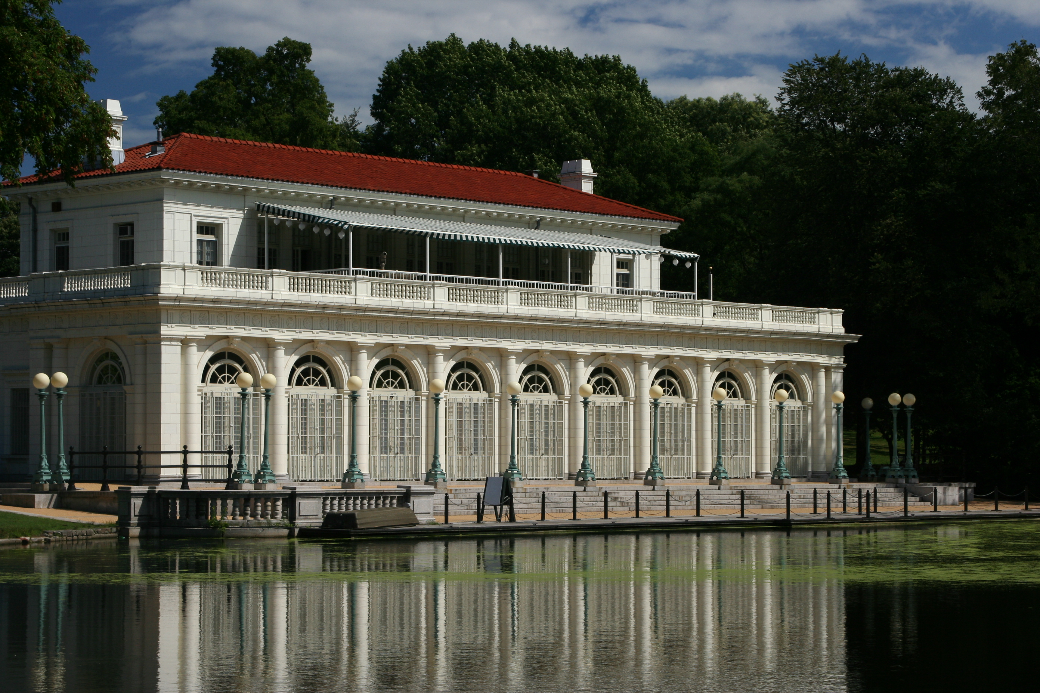 Prospect Park boathouse in Brooklyn, New York City